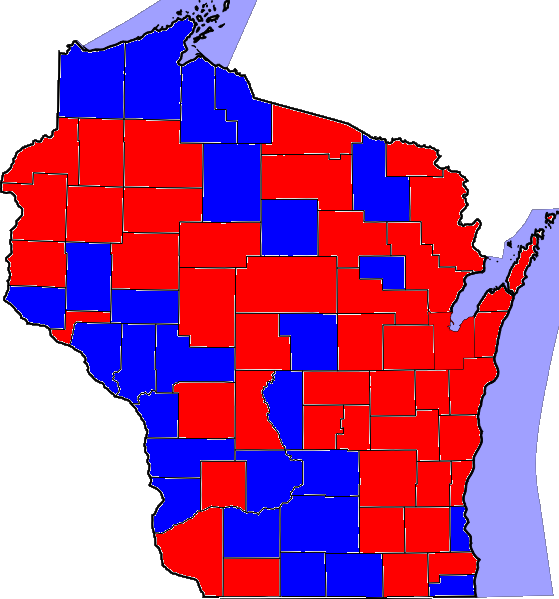 1998 Wisconsin Senate election results by county.